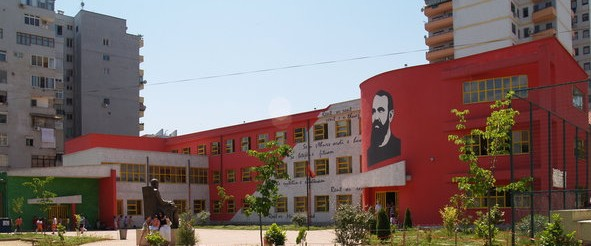 Picture of Fan Noli Secondary School taken in Tirana, Albania.